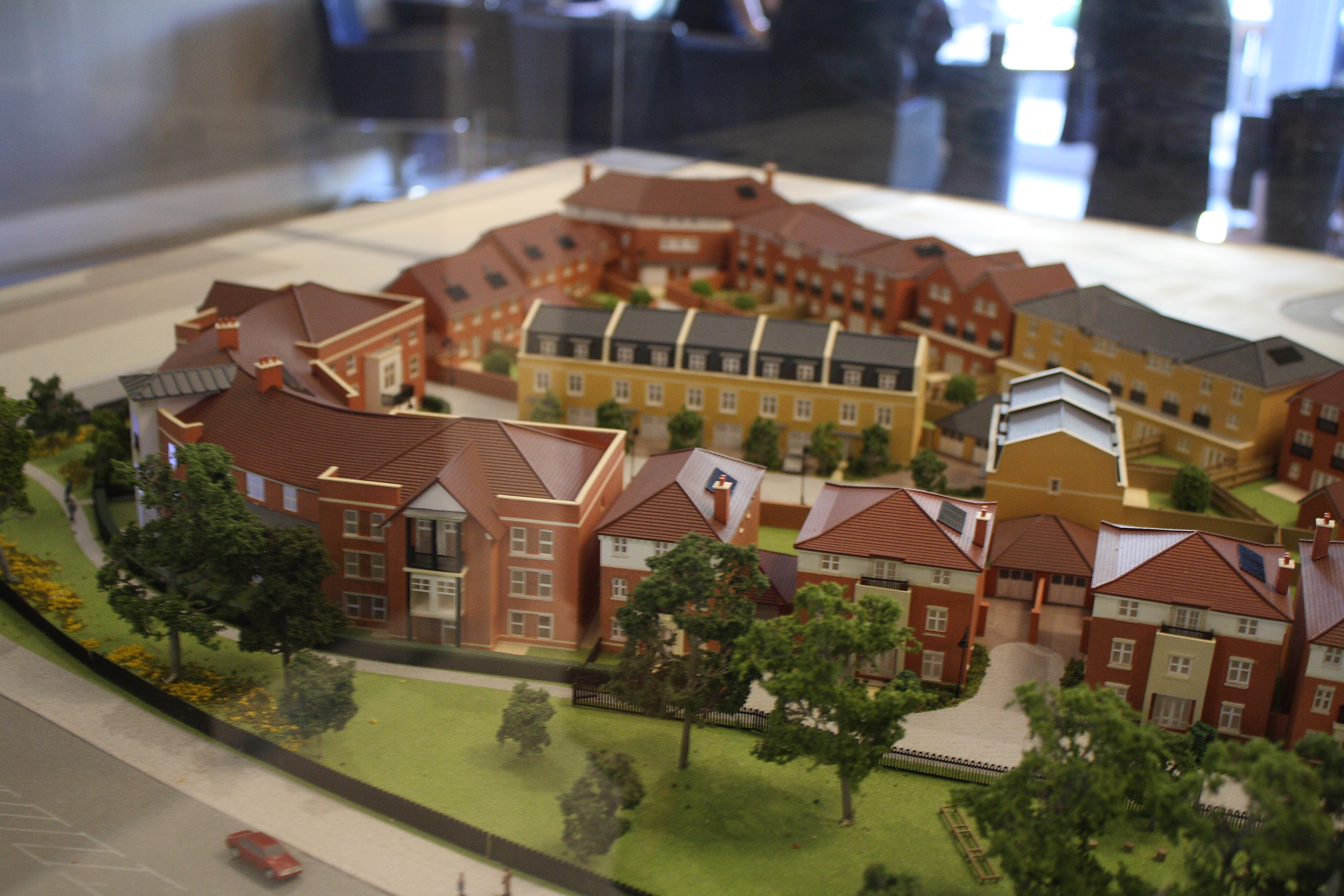 This is the scale model of the Cala Homes development at Ickenham Park. It's being built on top of the former US Naval base RAF West Ruislip, which stood on the site since the 1970s. There's a comprehensive and touching catalogue of the site at the end of it's operation here